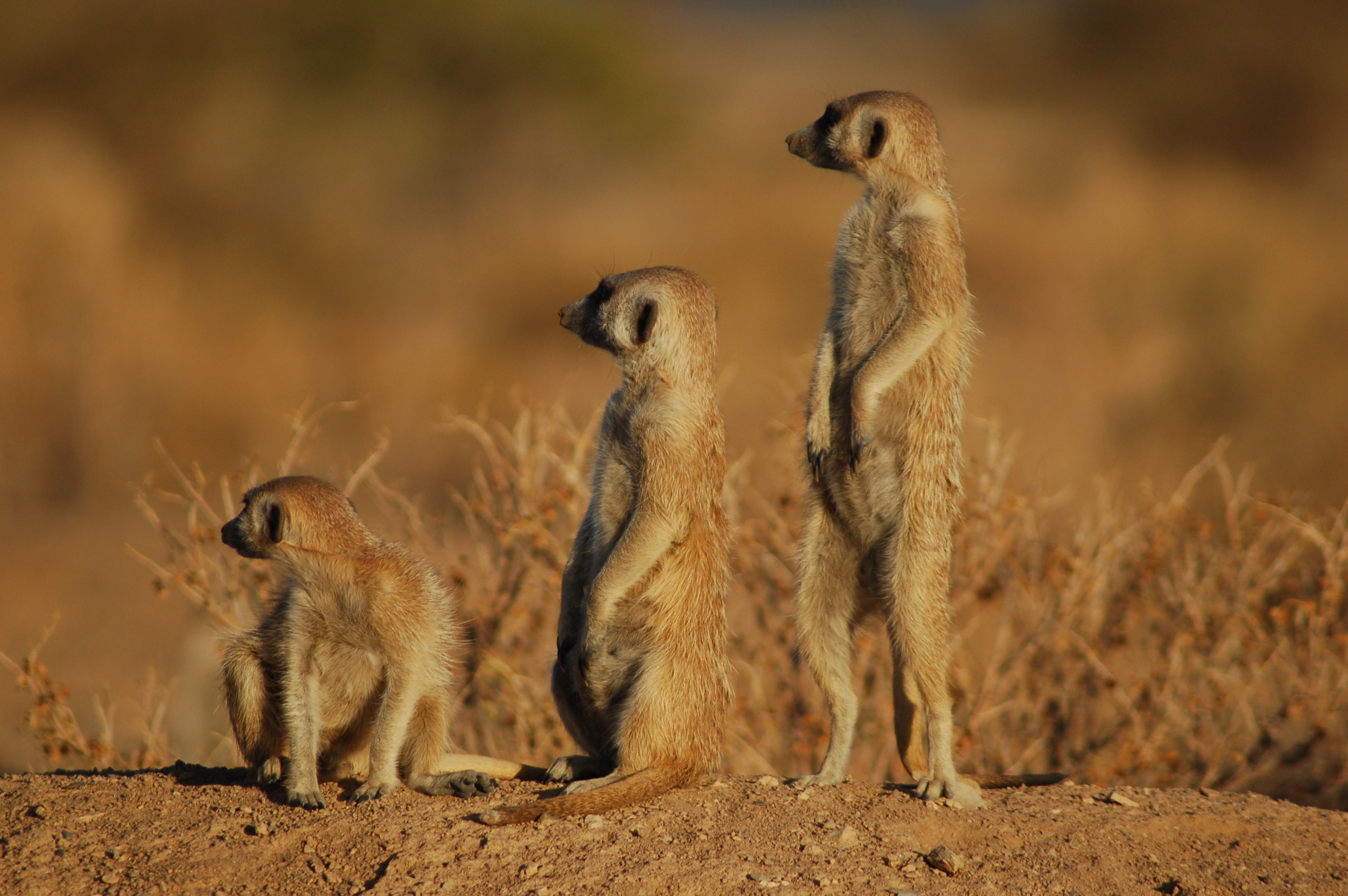 Suricates (Suricata suricatta) in Namibia